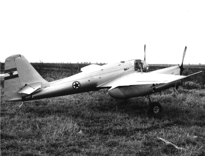 Ikarus 451 - before exposure to the Aeronautical Museum-Belgrade